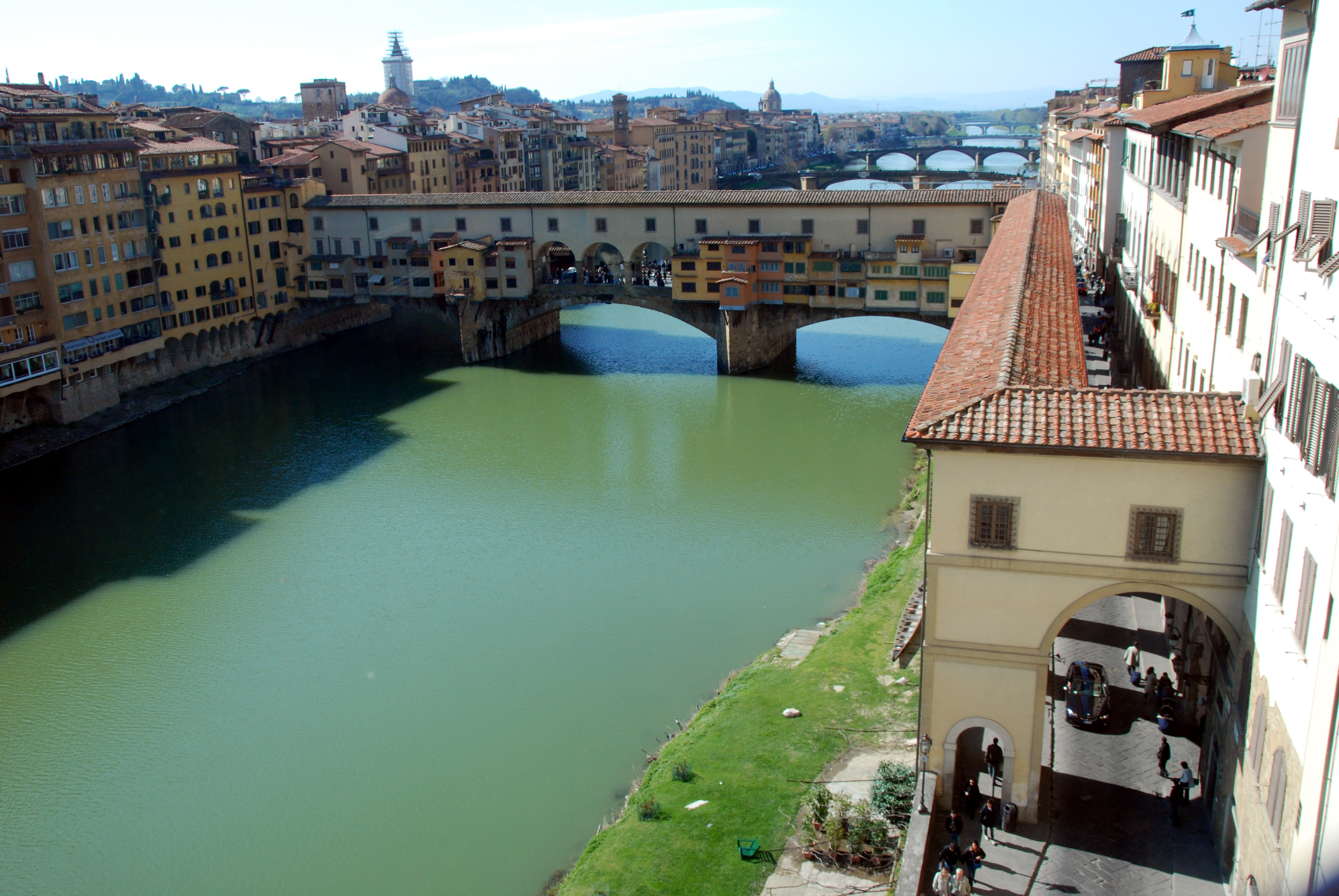 Ponte Vecchio and Vasari Corridor from Galleria degli Uffizi